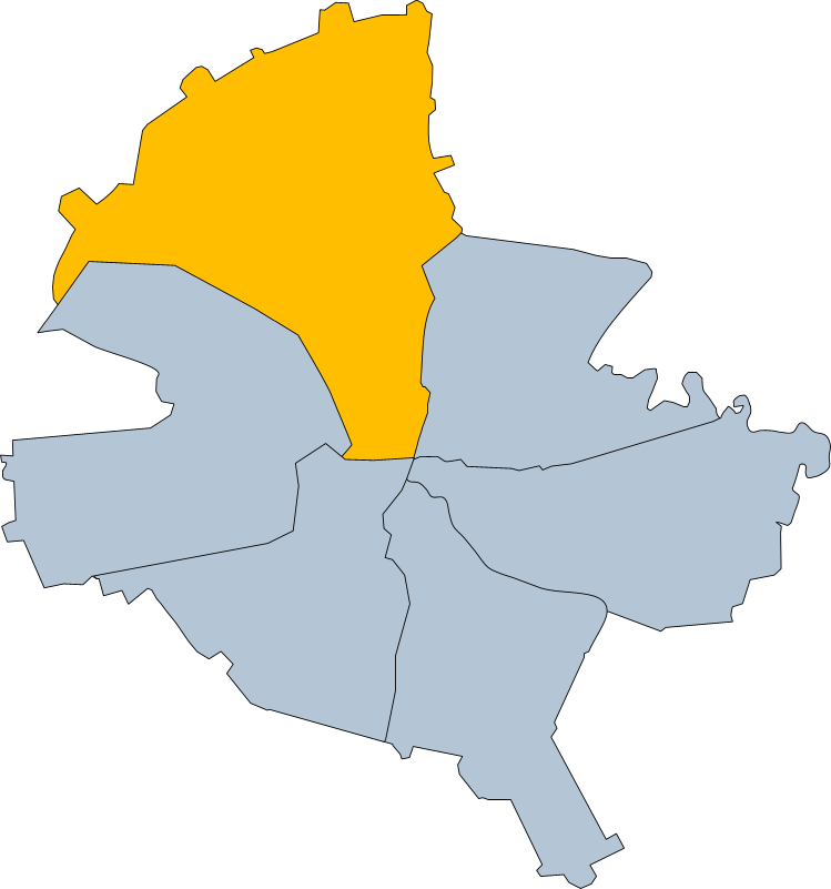 Sectors of Bucharest